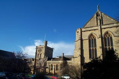 Part of Mansfield College, Oxford, seen from the southeast. On the right in the foreground is the college chapel.